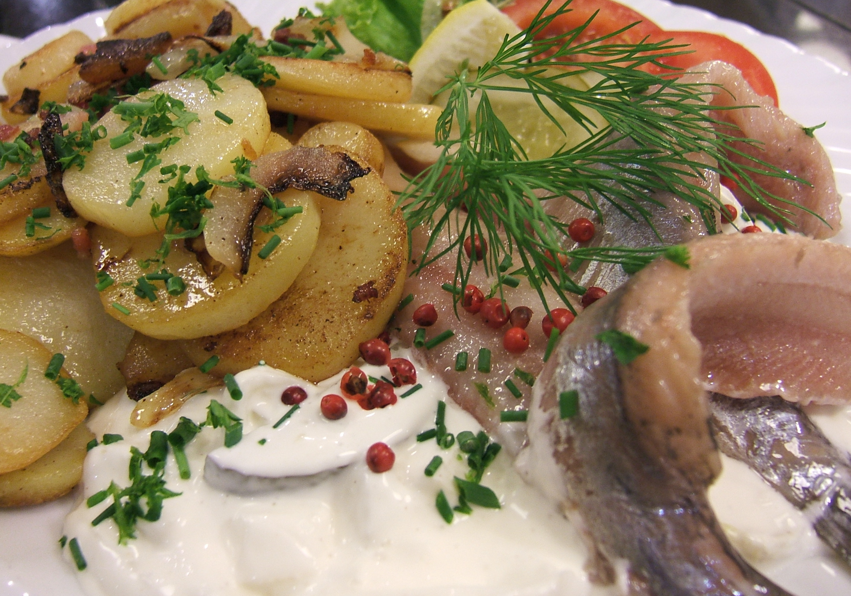 Herrings with sour cream and onions, served with fried potatoes.